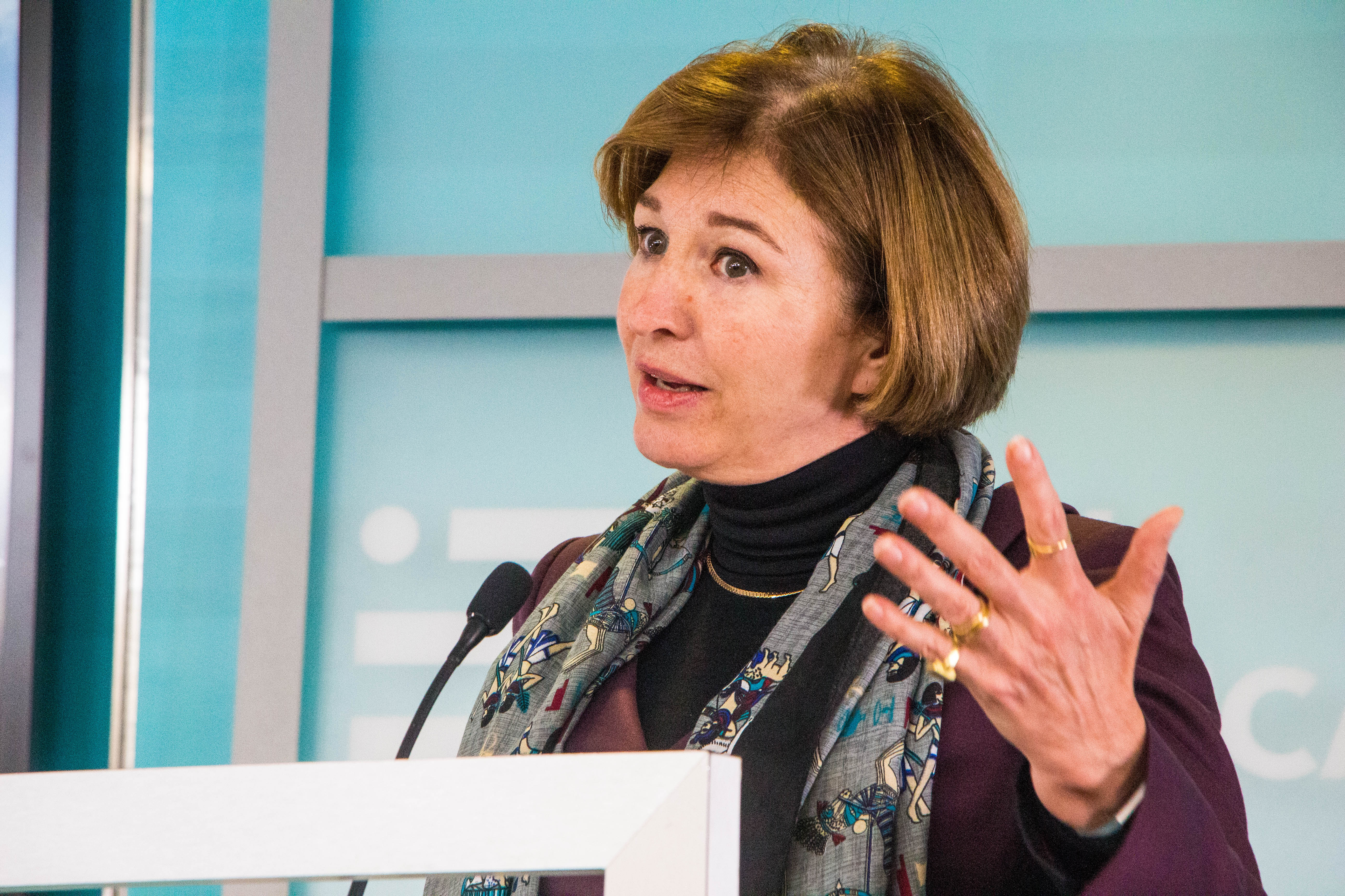 Anne-Marie Slaughter, President and CEO, New America